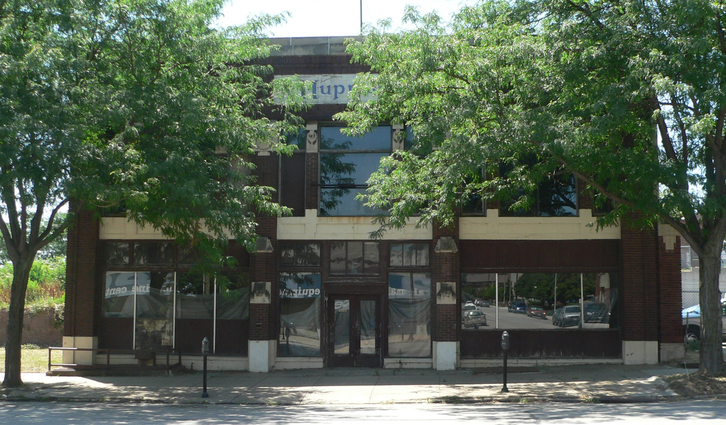 Hupmobile building, located at 2523 Farnam Street in Omaha, Nebraska; seen from the north, across Farnam.